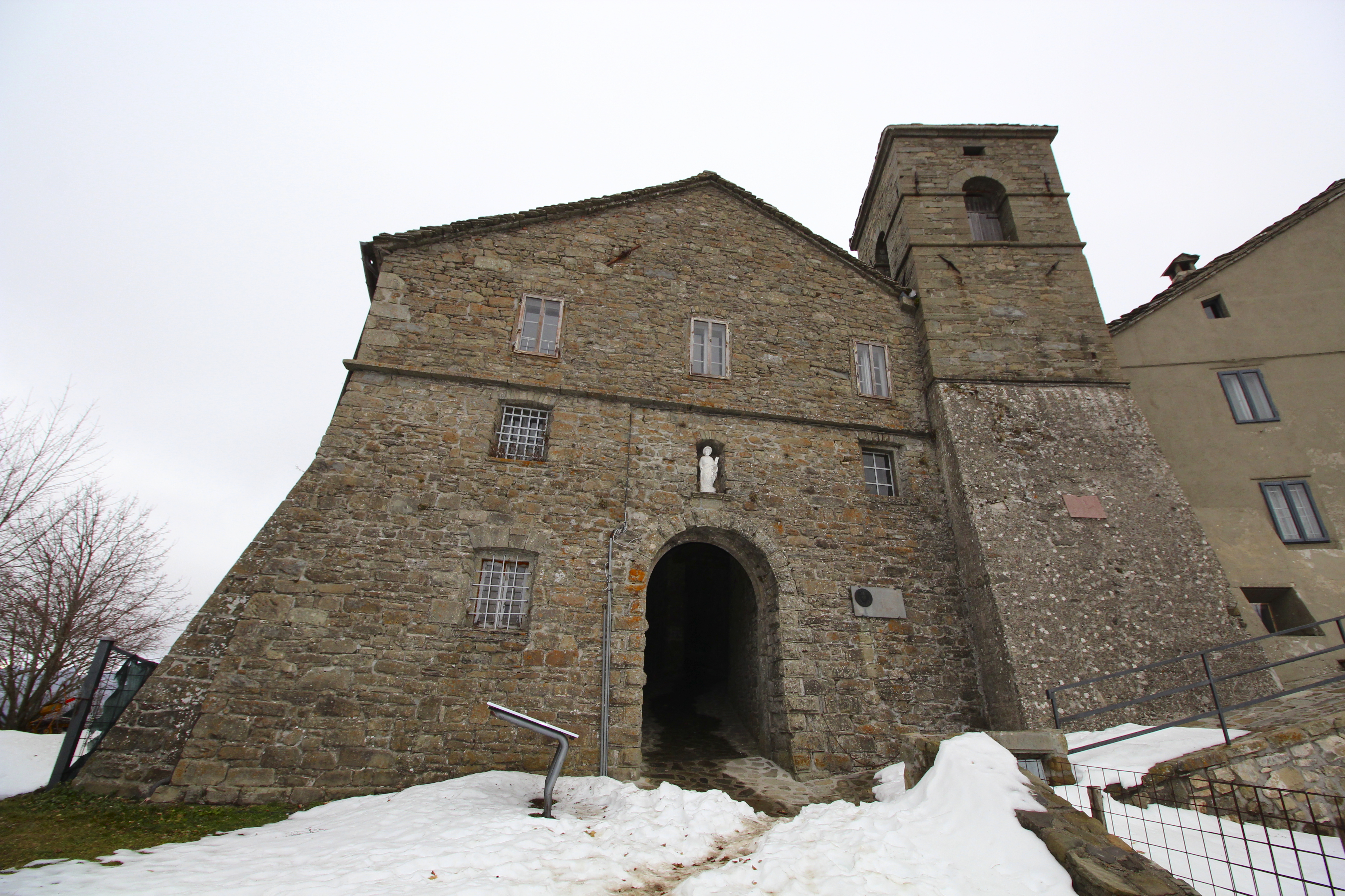 Sanctuary Santuario di San Pellegrino in Alpe, with the Church Santi Pellegrino e Bianco, San Pellegrino in Alpe, hamlet of Castiglione di Garfagnana, Province of Lucca, Tuscany, Italy, and and exclave of the municipality of Frassinoro (Provinze of Modena, Emilia-Romagna. The Sanctuary is part of the Roman Catholic Archdiocese of Lucca